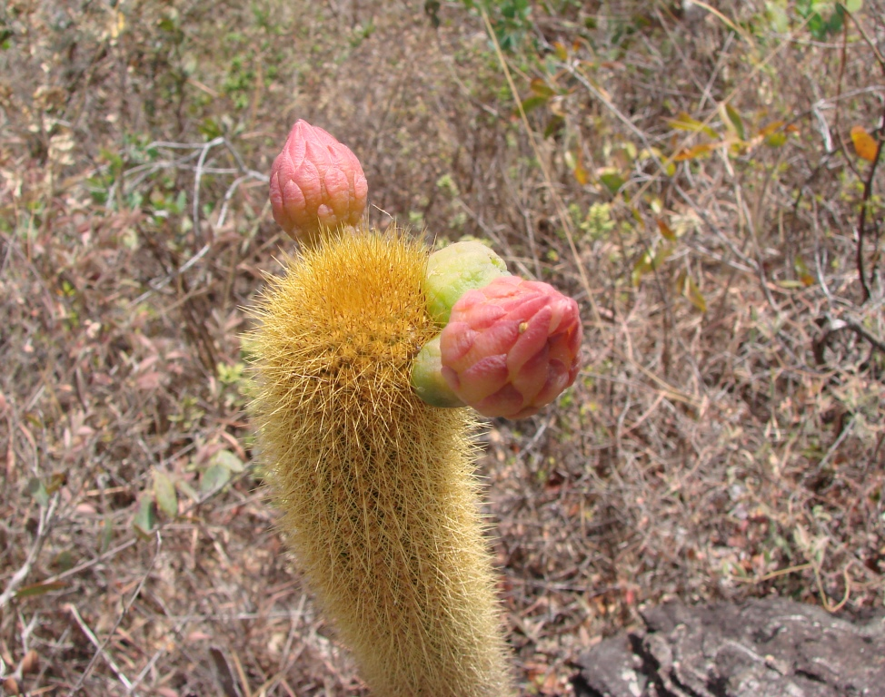 Pilosocereus vilaboensis with flower at the Parque Estadual Serra dos Pirineus in Pirenópolis, Goiás, Brazil